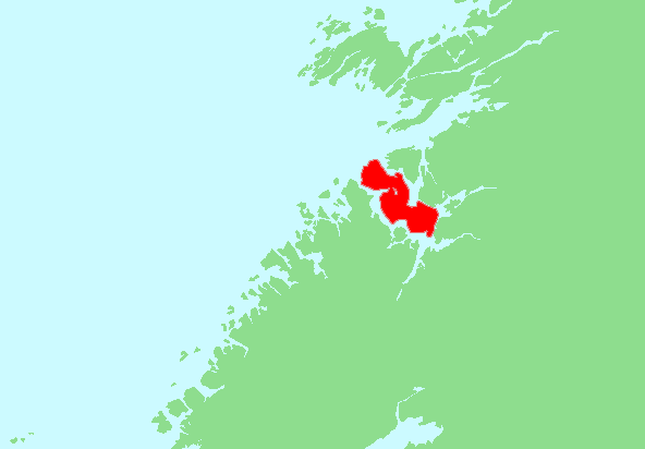 Locator map of Otterøya i Namsos, Norway